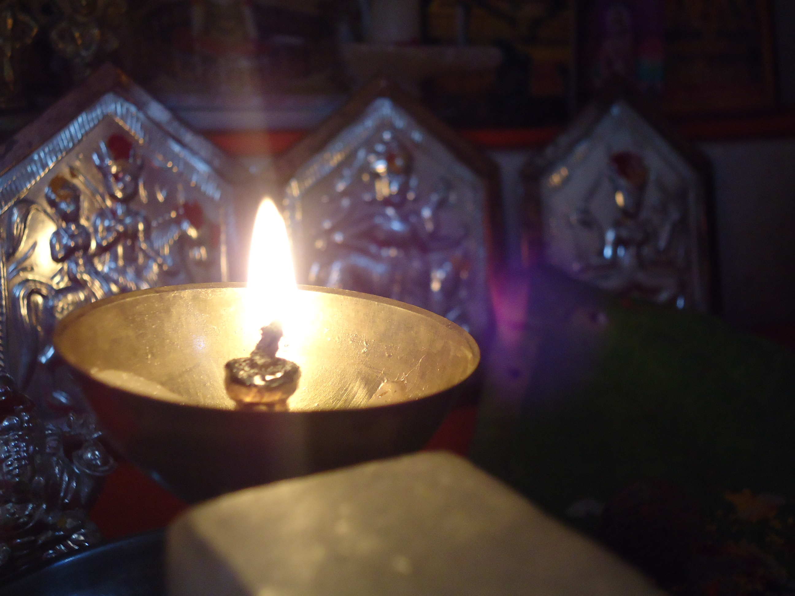 An oil lamp